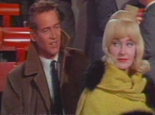 Screenshot of Paul Newman and Joanne Woodward from the trailer for the film A New Kind of Love